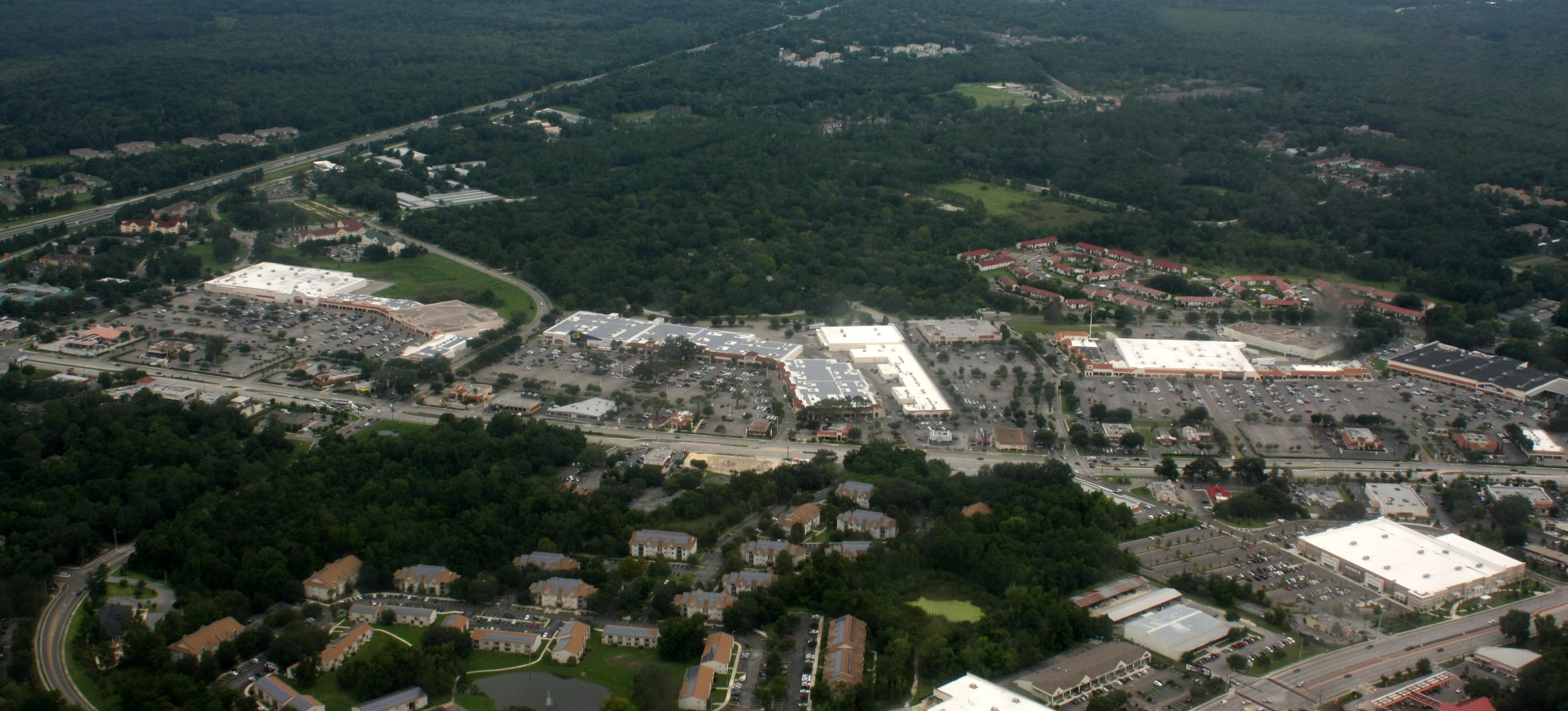 Aerial view of Butler Plaza power center in Gainesville Florida. Butler Plaza West (left) contains Target and a Publix supermarket. Butler Plaza Central contains Best Buy and Petsmart, and Butler Plaza East contains a second Publix supermarket, Wal-Mart, and Lowes. A local solar power incentive program prompted the installation of solar panels on the West and Central centers, as well as a nearby apartment complex.